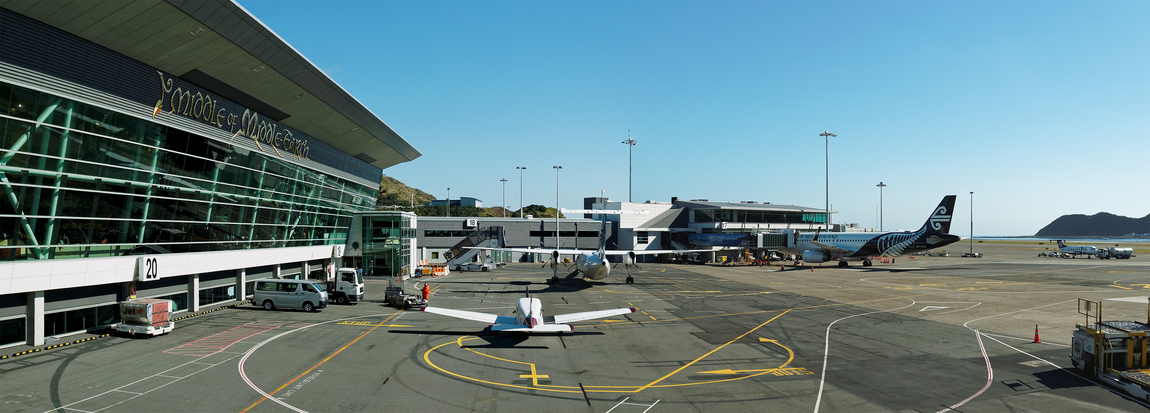 Wellington Airport apron